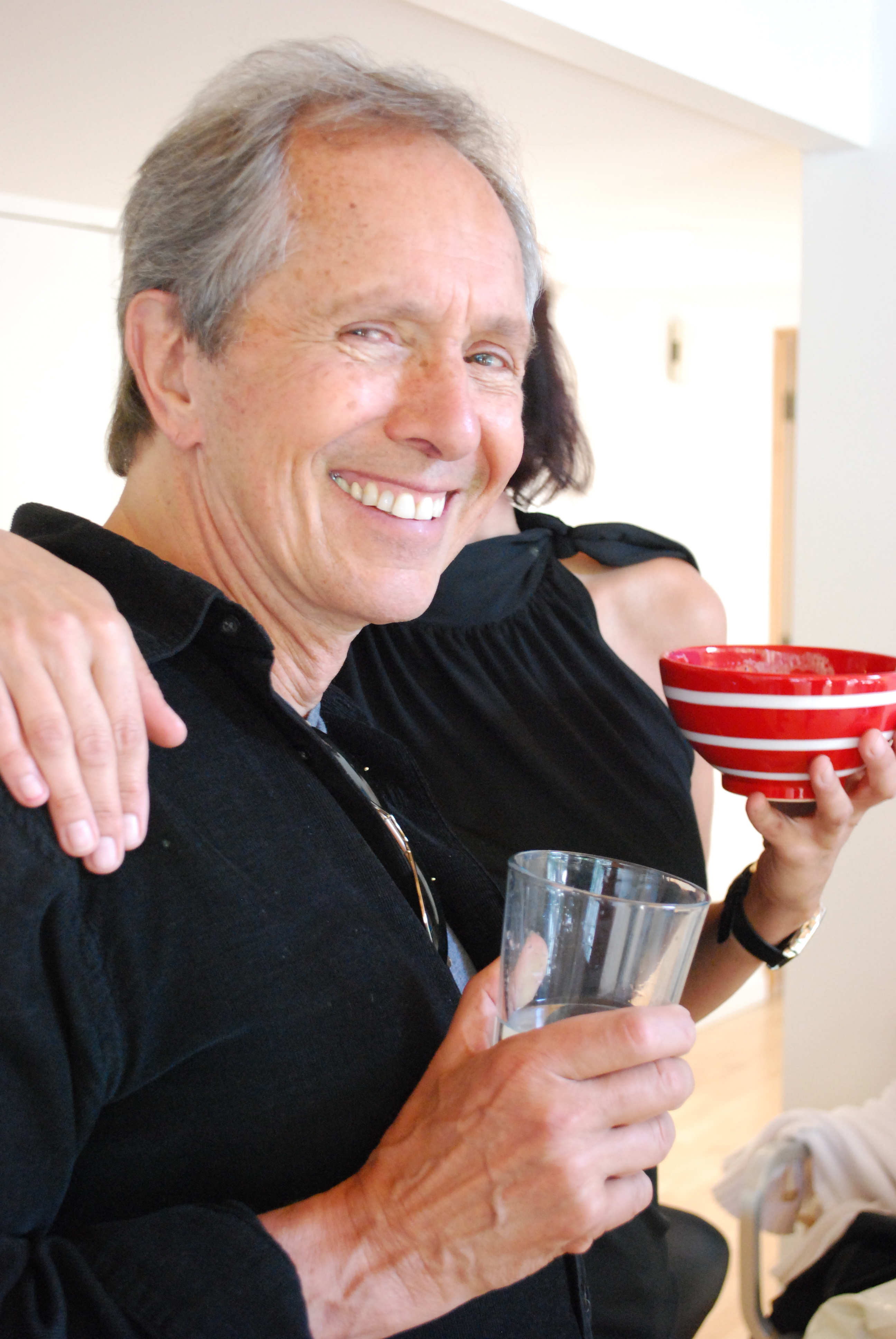 Lewis Teague at a CharlottaTS party.